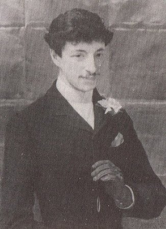 Marc-Andre Raffalovich